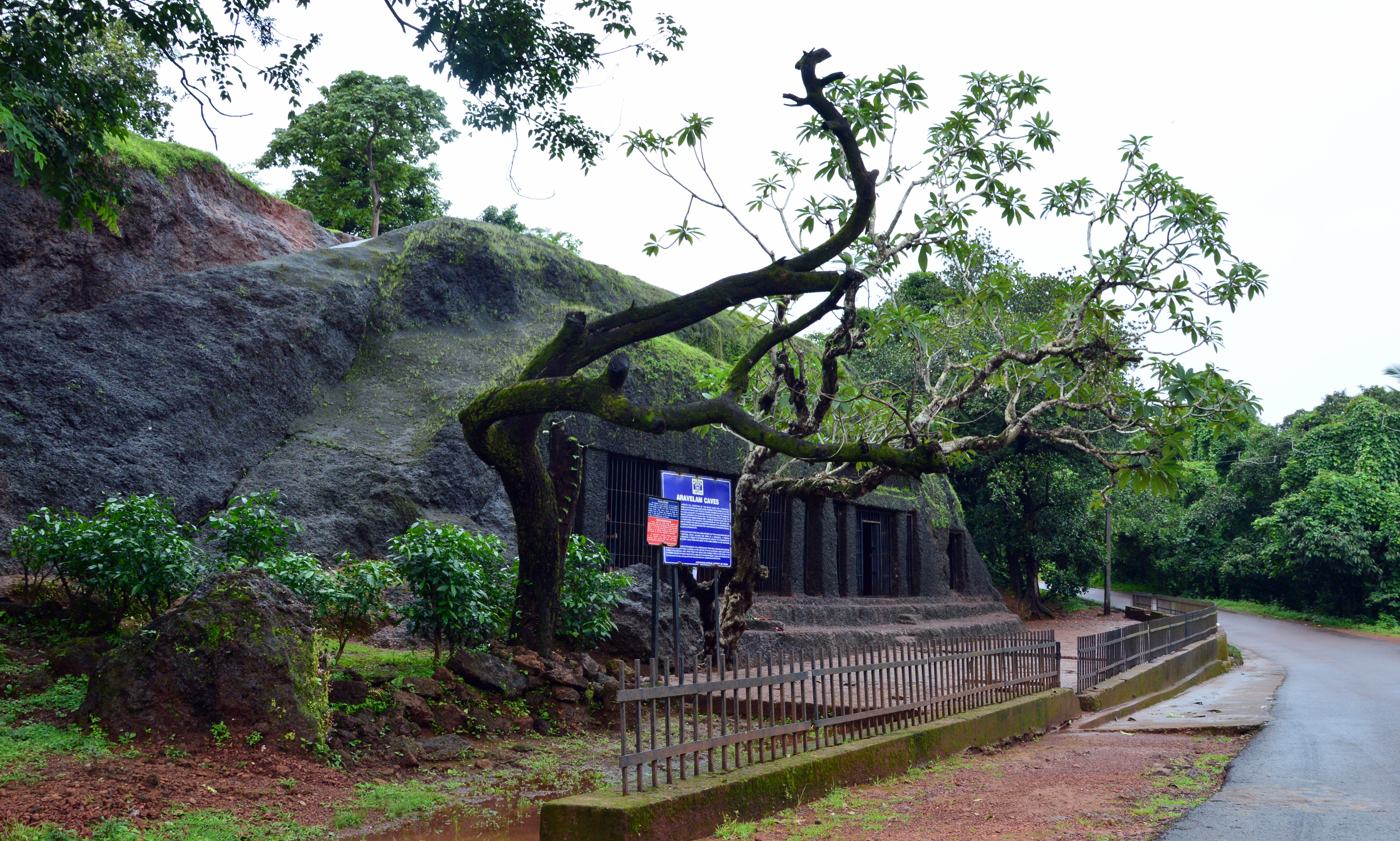 The Arvalem caves also known as Pandavas Caves. Close to the caves is spectacular waterfall